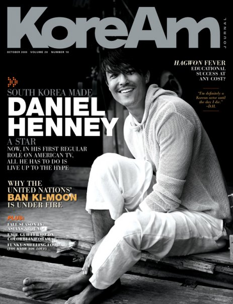 Magazine cover of KoreAm from October 2009 issue featuring Daniel Henney.